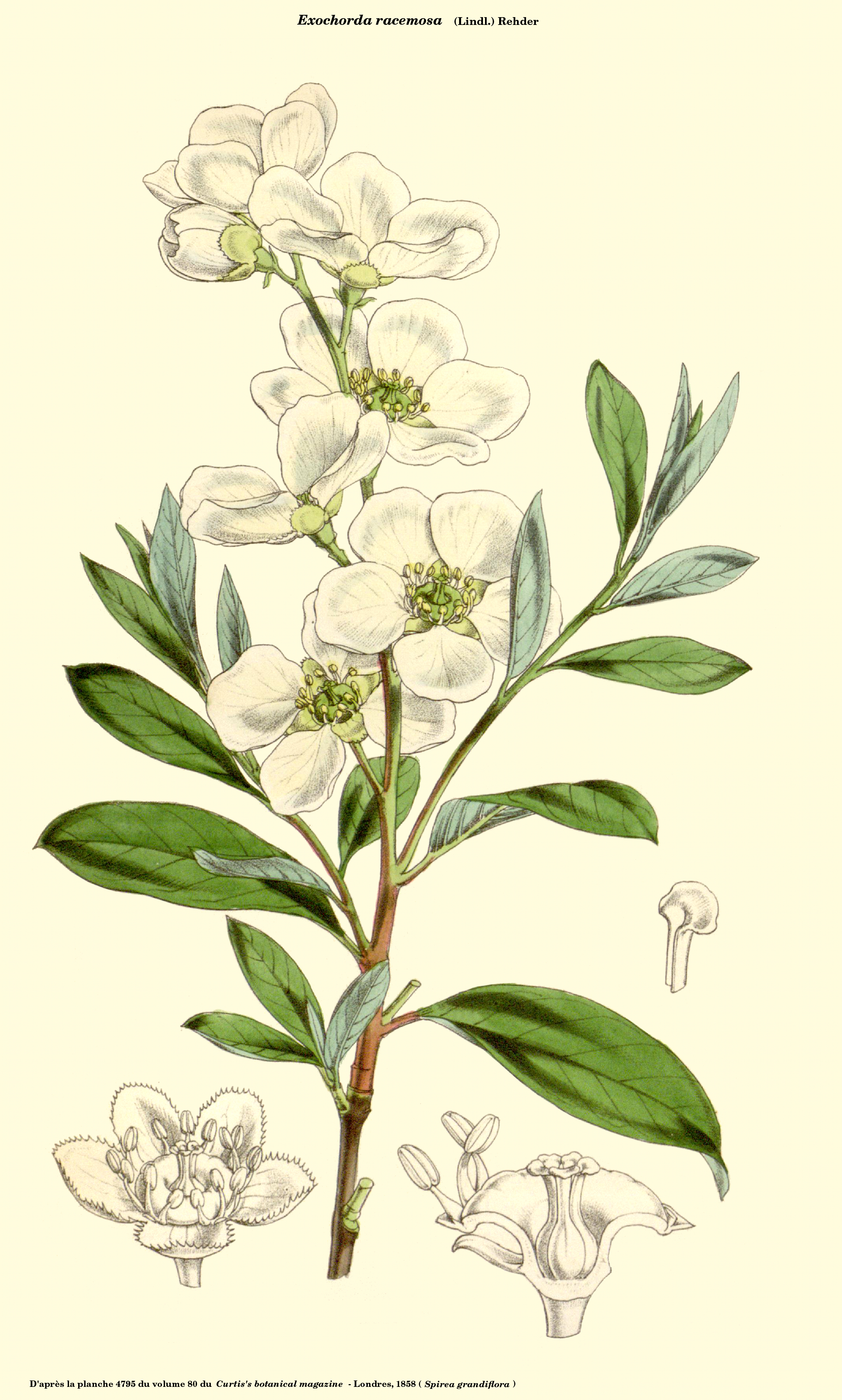 Exochorda racemosa (Spirea grandiflora)